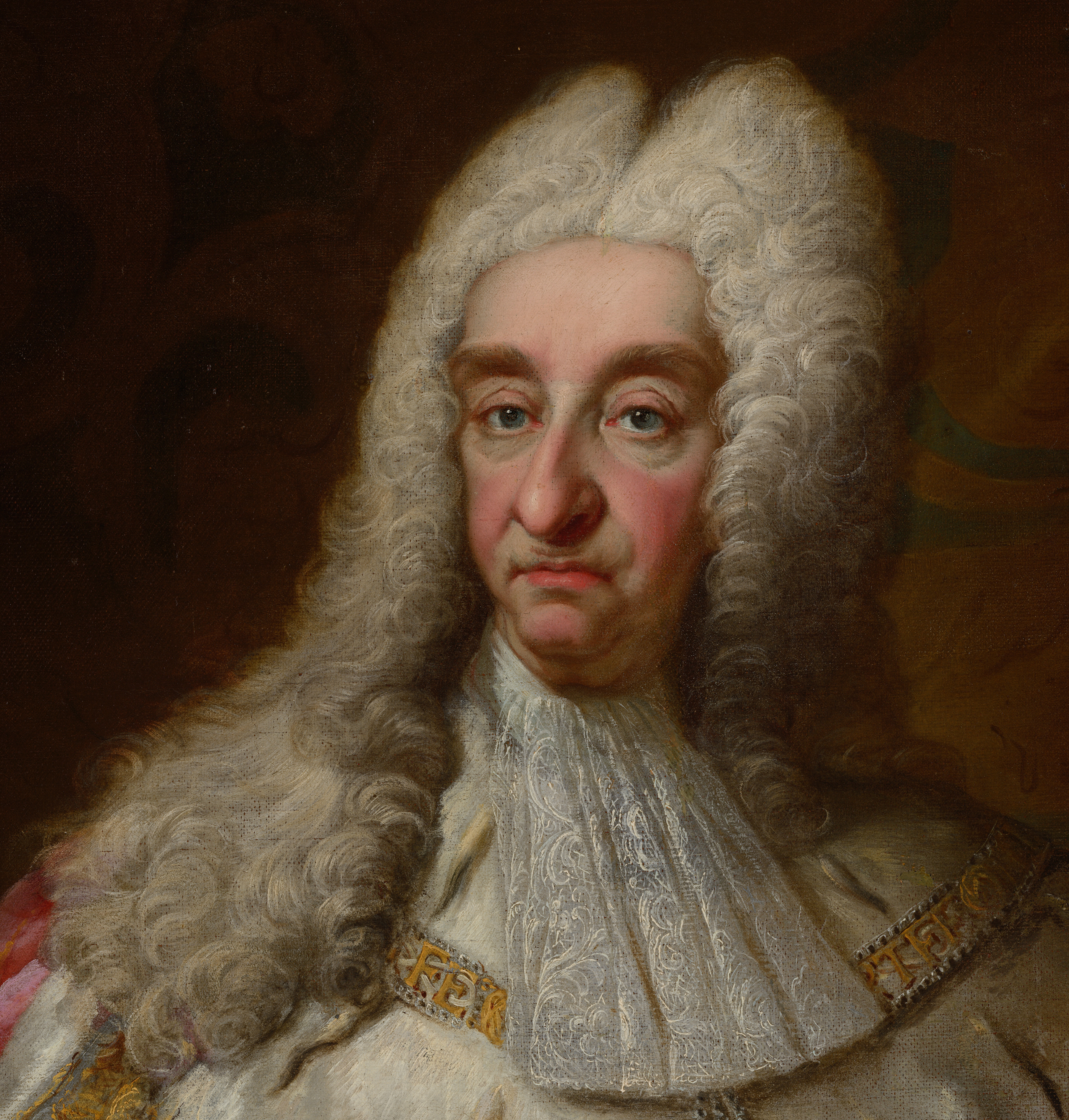 cropped portrait of Vittorio Amedeo II in majesty